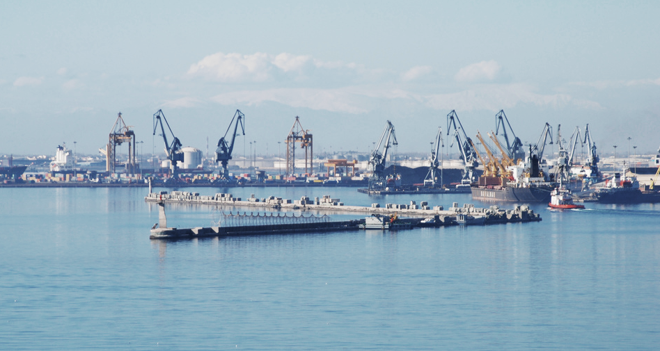 View of the Port of Thessaloniki from the White Tower.